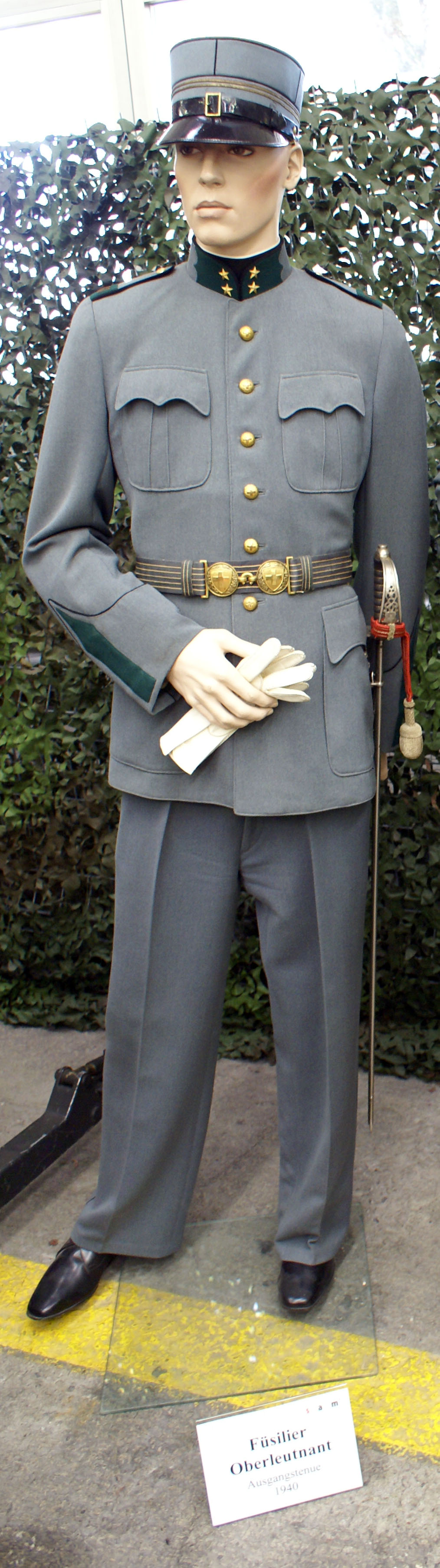 Swiss Army. Infantry first lieutenant, dress uniform of 1940. Swiss Army Museum.